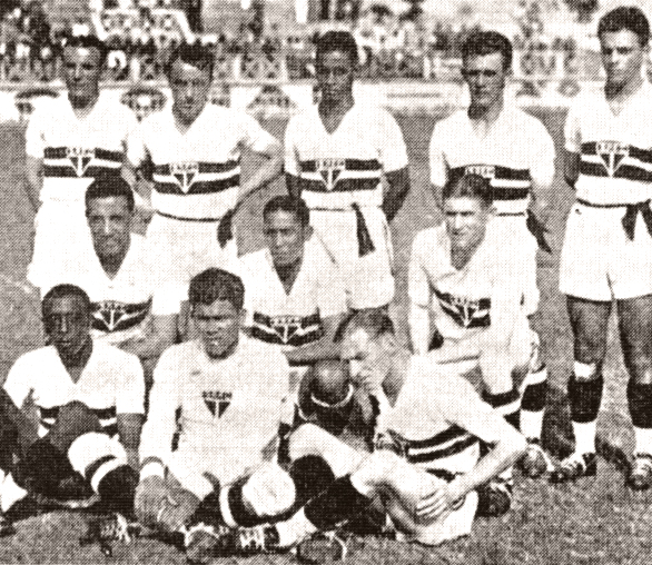 squad of São Paulo Futebol Clube in 1936. Not in sequence: King, Ruy, Picareta, Ferreira, José, Segoa, Antoninho, Hermenegildo Gabardo, Fogueira, Carrazo and Paulinho.